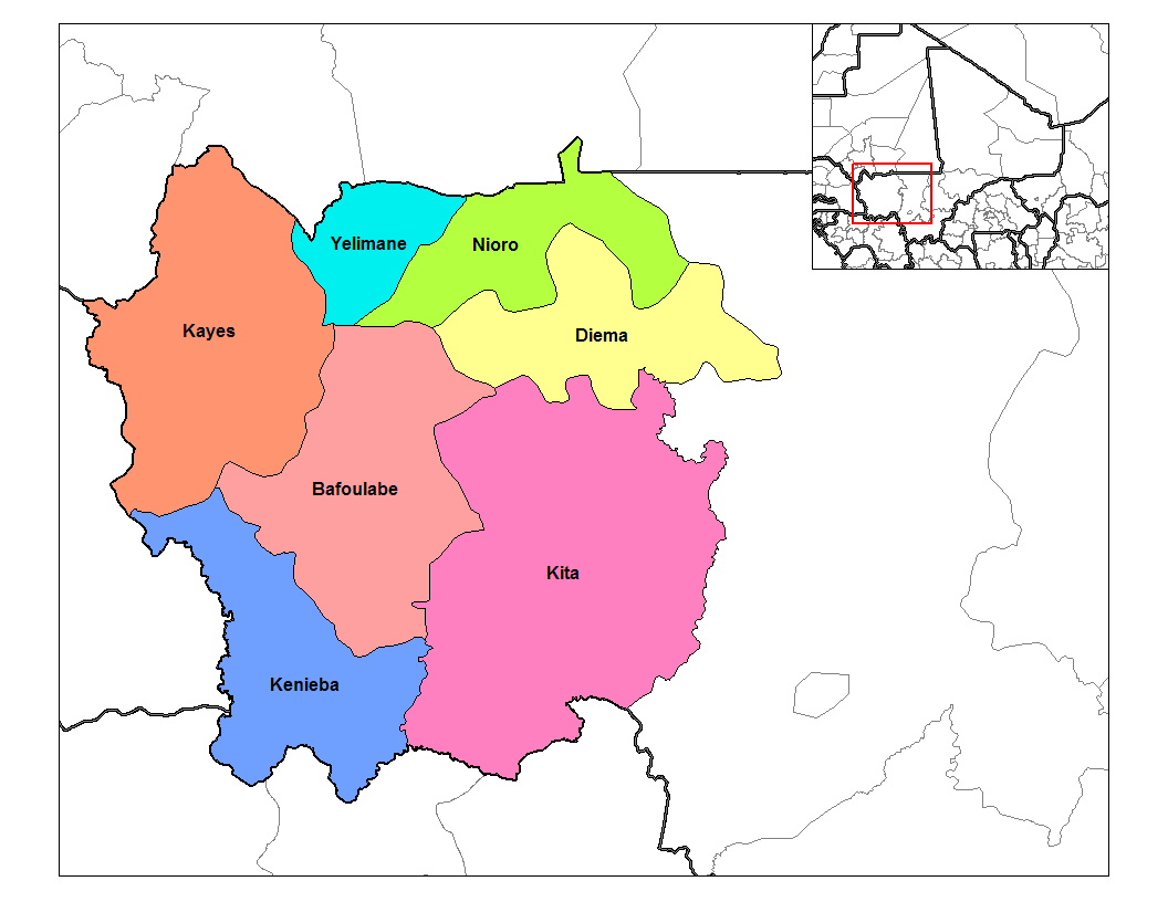 Map of the cercles of Kayes region in Mali. Created using MapInfo Professional v8.5 and various mapping resources.